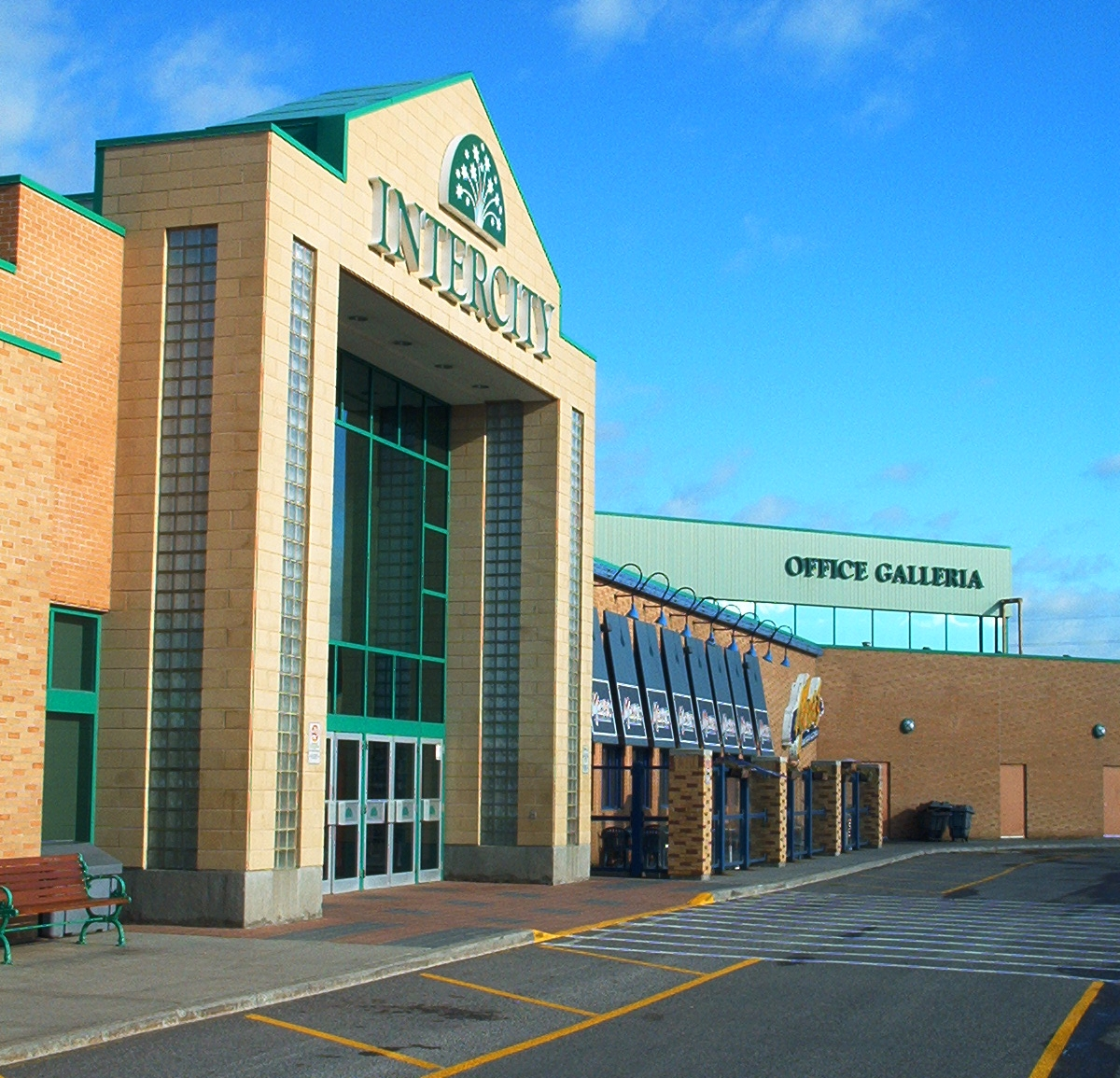 The middle entrance to Intercity Shopping Centre in Thunder Bay, Ontario. Picture was taken in the morning, before the mall opened, to take advantage of lighting conditions.